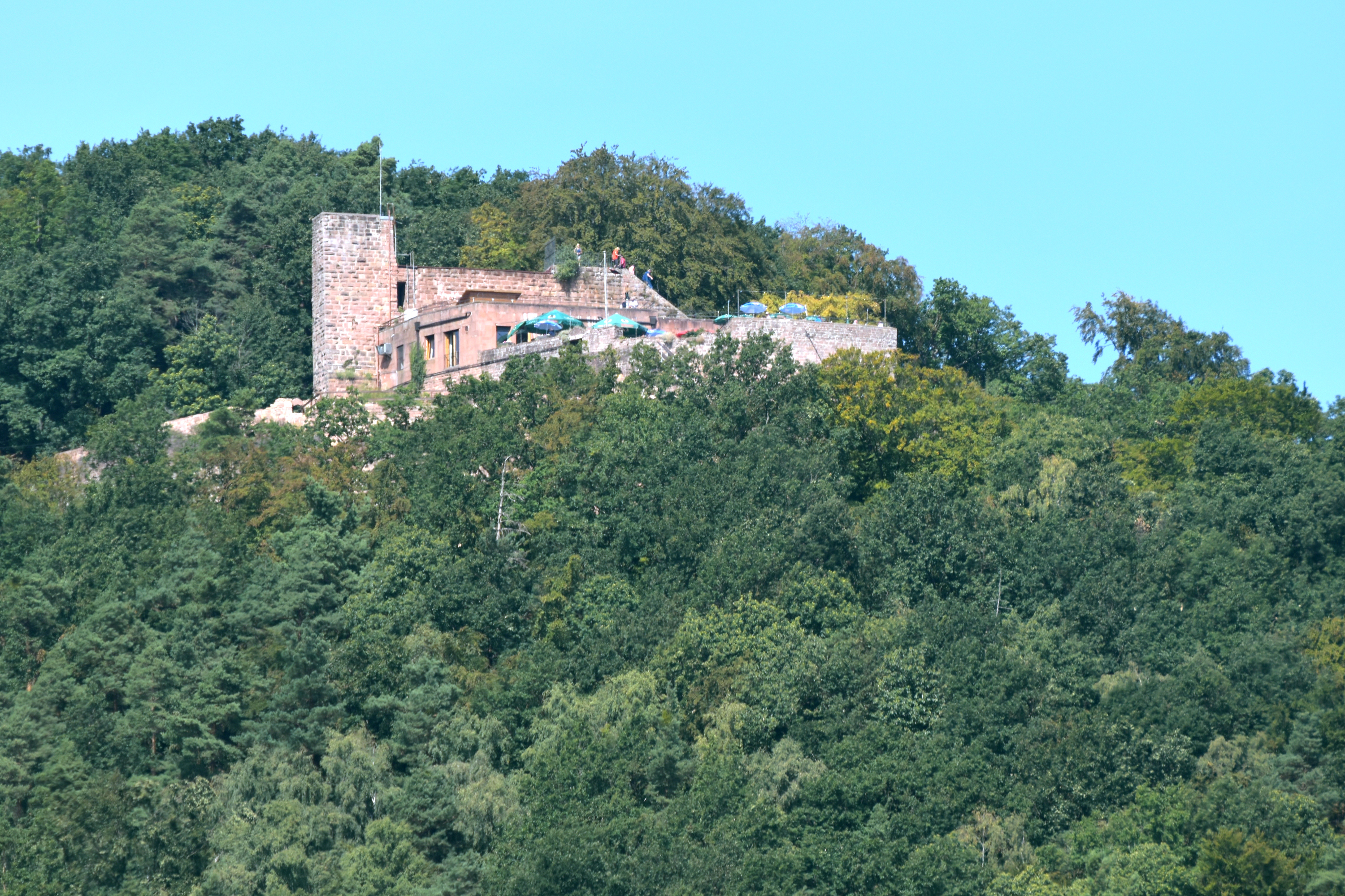 Blättersberg